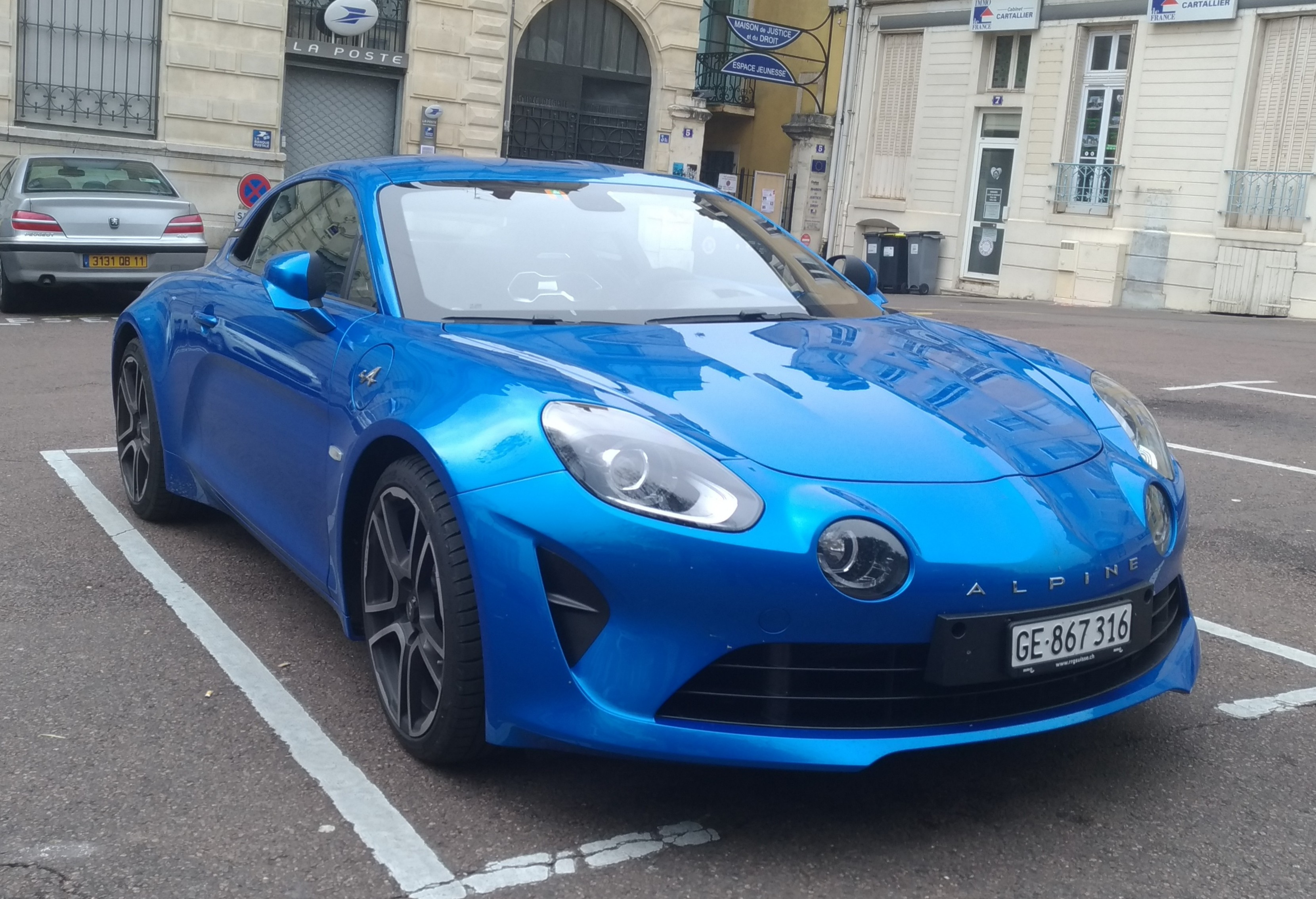 2018 Alpine A110 (1.8 250 hp) at Chalon sur Saône